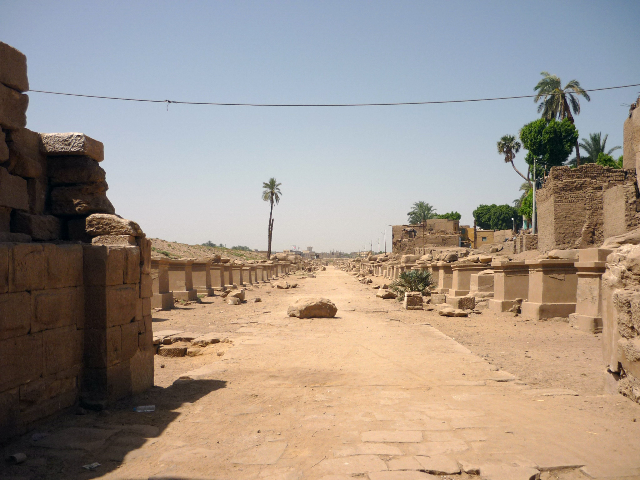 Dromos between Amun-Ra and Mut precincts from tenth pylon, Karnak temple of Amun-Ra, Egypt